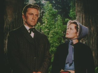 Screenshot from The Big Trees - Kirk Douglas and Eve Miller.